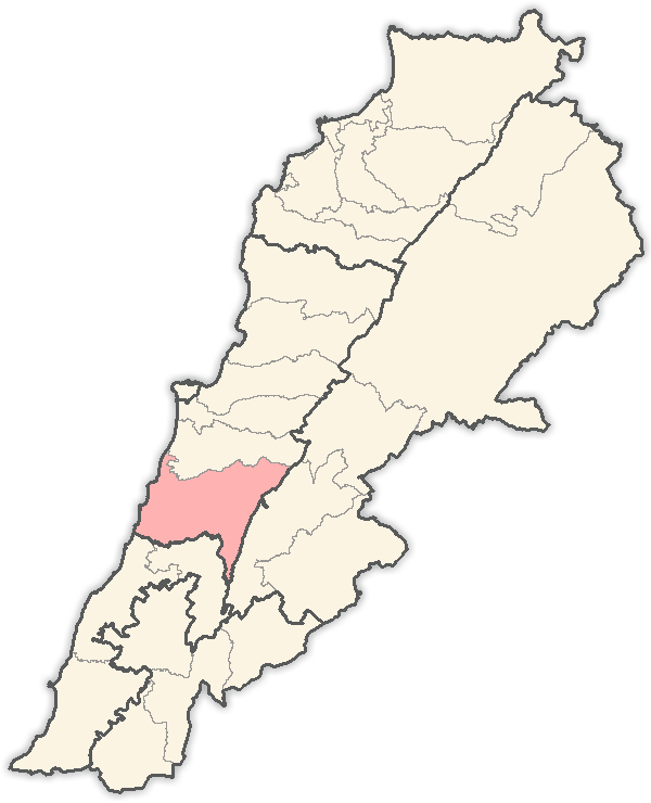 Map of districts in Lebanon, highlighting the Chouf District